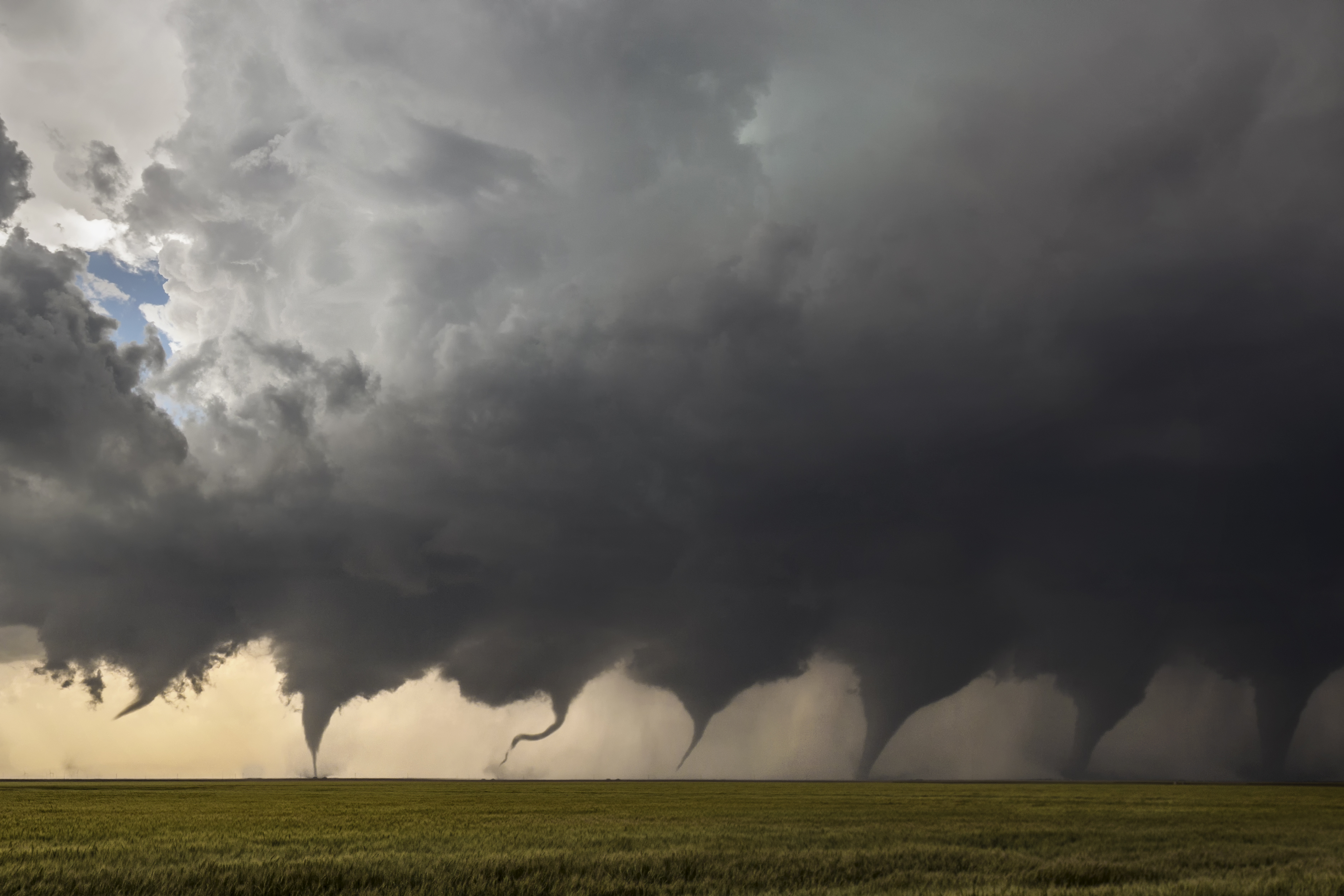 This image is created from eight images shot in two sequences as a tornado formed north of Minneola, Kansas on May 24, 2016. This prolific supercell went on to produce at least 12 tornadoes and at times had two and even three tornadoes on the ground at once.